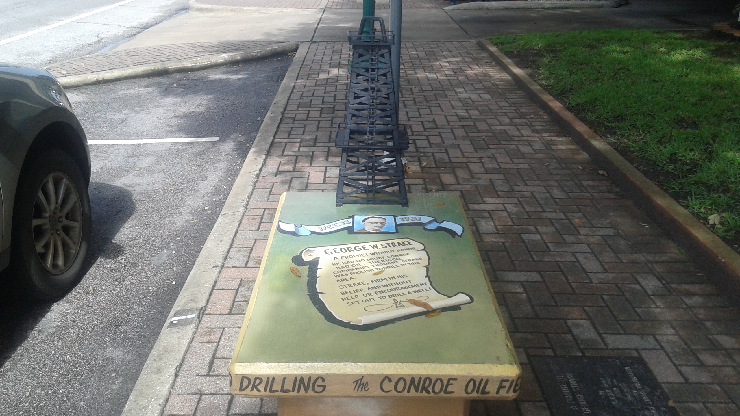 Bench art in downtown Conroe, Texas, entitled, "A Tribute to George Strake" by local artist Joe Kolb, 2009.